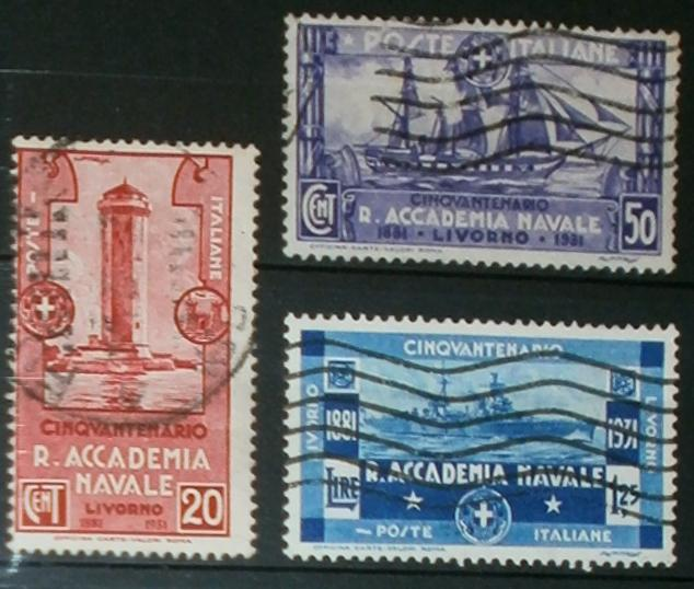 Cinquantenario della Regia Accademia Navale di Livorno - serie completa - italian stamps - 1931 - stamps of the Kingdom of Italy: I francobolli della serie hanno come soggetto la Torre del Marzocco di Livorno (valore da 20 cent), la nave scuola Amerigo Vespucci (valore da 50 cent), e l'incrociatore Trento(valore da 1,25 lire).